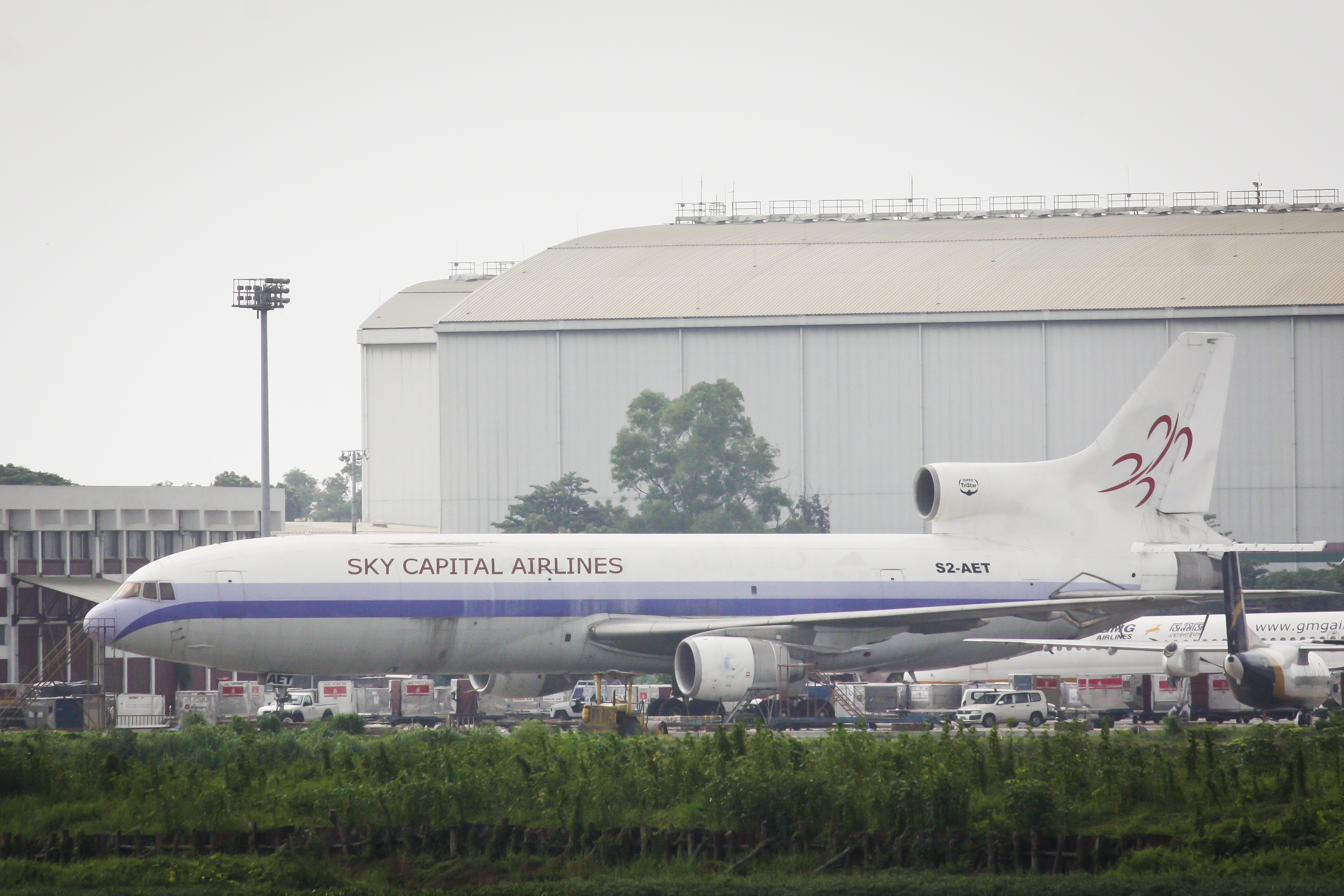 Sky Capital Airlines is a Bangladeshi cargo airline based in Dhaka, Bangladesh.